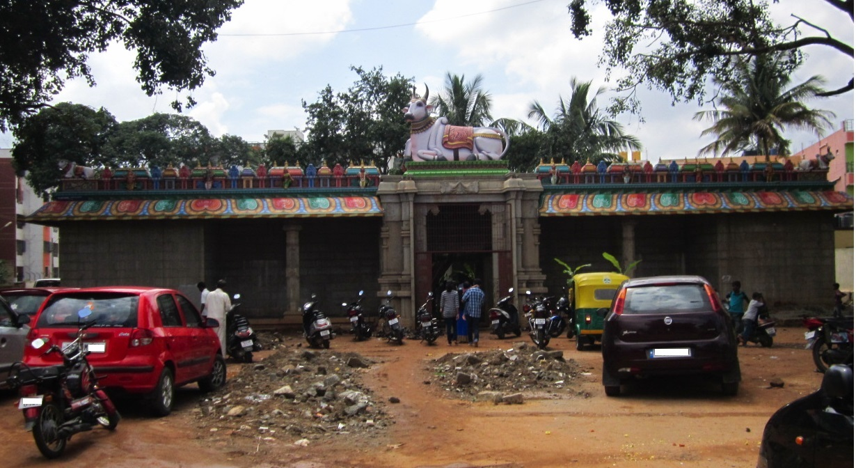 A View of 800 year old temple in Thindlu dedicated to lord Veerabhadra.